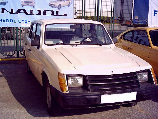 1981-1984 Anadol A8-16. One of only 1,013 built.